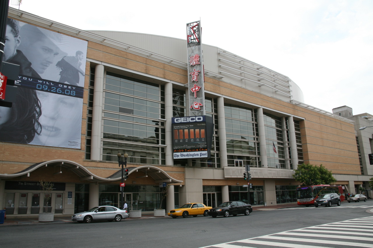 Capital One Arena in the Chinatown neighborhood of Washington, D.C., home of the NHL’s Washington Capitals and NBA’s Washington Wizards